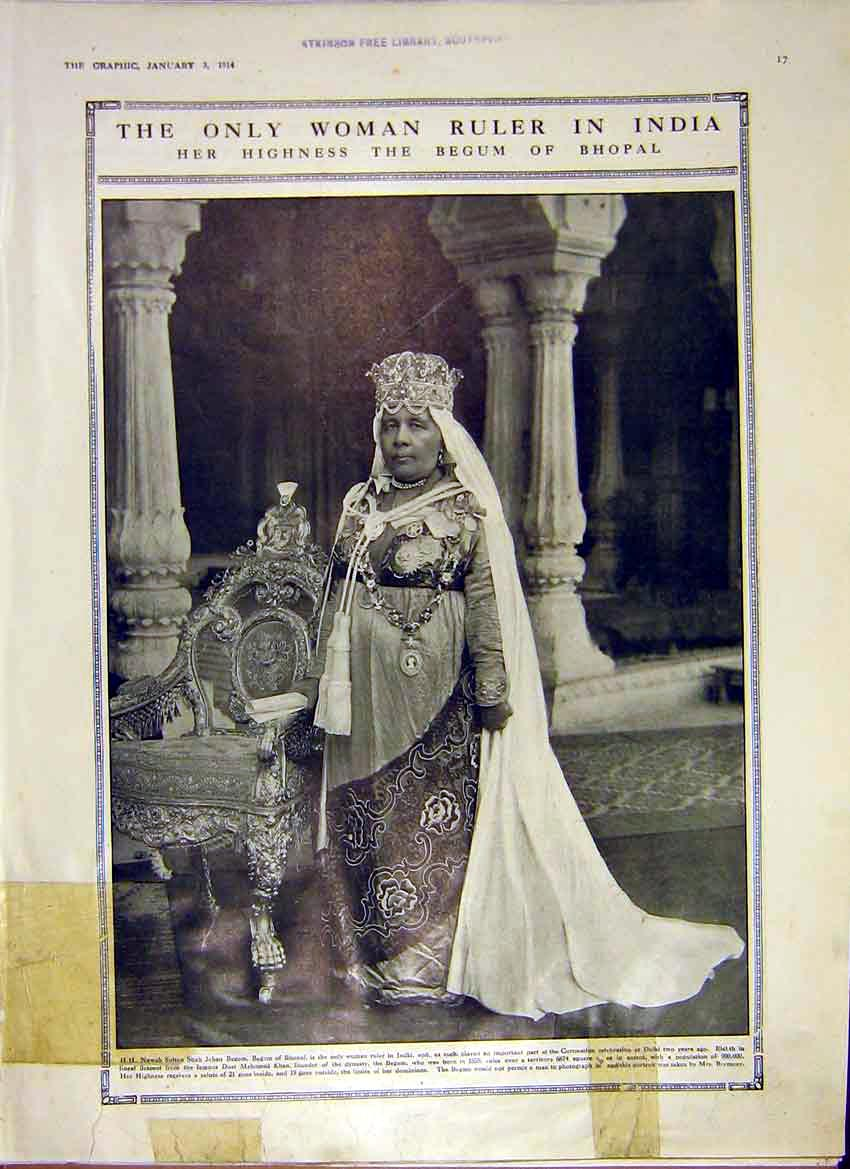 "The only woman ruler in India-- Her Highness the Begum of Bhopal," a photo of Kaikhusrau Jahan, from The Graphic, 1914 Source: ebay, Mar. 2006